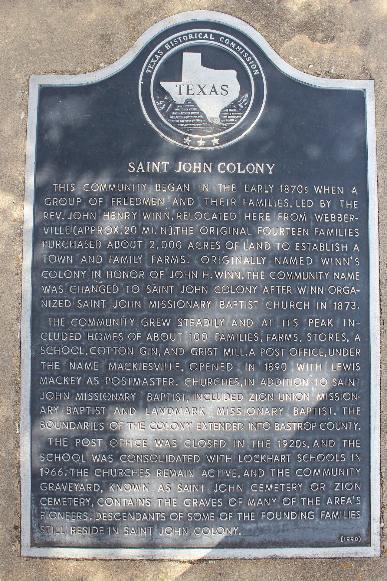 Saint John Colony This community began in the early 1870s, when a group of freedmen and their families, let by the Rev. John Henry Winn, relocated here from Webberville (approx. 20 mi. N). The original fourteen families purchased about 2,000 acres of land to establish a town and family farms. Originally named Winn's Colony in honor of John H. Winn, the community name was changed to Saint John Colony after Winn organized Saint John Missionary Baptist Church in 1873. The community grew steadily and at its peak included homes of about 100 families, farms, stores, a school, cotton gin, and grist mill. A post office, under the name Mackiesville, opened in 1890 with Lewis Mackey as Postmaster. Churches, in addition to Saint John Missionary Baptist, included Zion Union Missionary Baptist and Landmark Missionary Baptist. The boundaries of the colony extended into Bastrop County. The post office was closed in the 1920s, and the school was consolidated with Lockhart schools in 1966. The churches remain active, and the community graveyard, known as Saint John Cemetery, or Zion Cemetery, contains the graves of many of the area's pioneers. Descendants of some of the founding families still reside in Saint John Colony. (1990) #14663